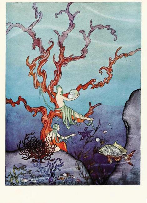 Virginia Frances Sterrett: illustrator of Arabian Nights (1928) I’m thinking about scanning an original 1899 edition of “Arabian Nights” with illustrations by W. H. Robinson and others, but I’m worried about messing up the binding so we’ll see about that. In the meantime, here is the triumphant but unfortunate story of the artist behind another edition of “Arabian Nights”: Virginia Sterrett. She was born in Chicago in 1900. Her father died when she was very young, and her mother moved with Virginia and her sister to live with their extended family. Demonstrating an early talent for art, she entered and won prizes in drawing competitions at the Kansas State Fair Exhibition. Her course in life as an illustrator was set, and as a teenager she began to work for various advertising agencies. A bout of tuberculosis left her in a state of permanently poor health. Her talent for fantasy art caught the attention of publishing houses, and at the age of 19 she completed her first book illustration commission for the volume “Old French Fairy Tales”. The same publishing company, Penn, immediately employed her again to illustrate “Tanglewood Tales”. By 1923, her illness had become so severe that it was necessary to enter a sanitorium as a long-term patient. The Penn Publishing Company again commissioned her for a new edition of Arabian Nights. As before, this was a large commission: 16 colour illustrations, 20 in black ink, a coloured picture for the front cover and further drawings for the inside cover. Her failing vitality hindered the progress of the pieces and there were limited hours in which she could work, which meant that the project took three years to complete. After some exhibitions, Penn signed her to create artwork for “Myths and Legends”. Sadly this assignment was never completed; Ms. Sterrett died after a relapse of her tuberculosis in the summer of 1931.